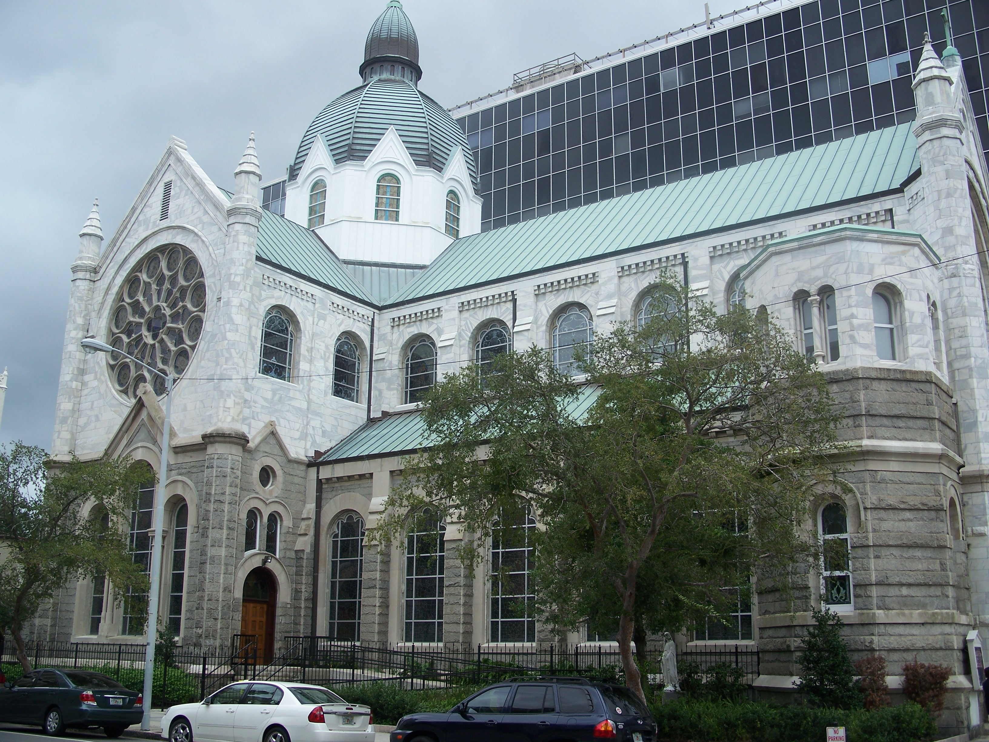 Sacred Heart Church, in downtown Tampa, Florida